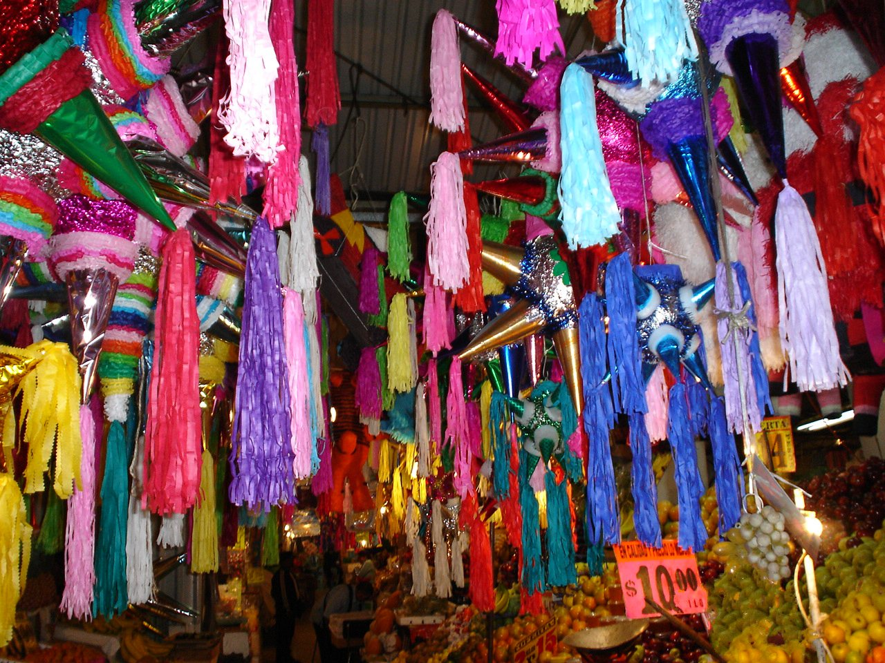 PIÑATAS EN MERCADO TRADICIONAL MEXICANO